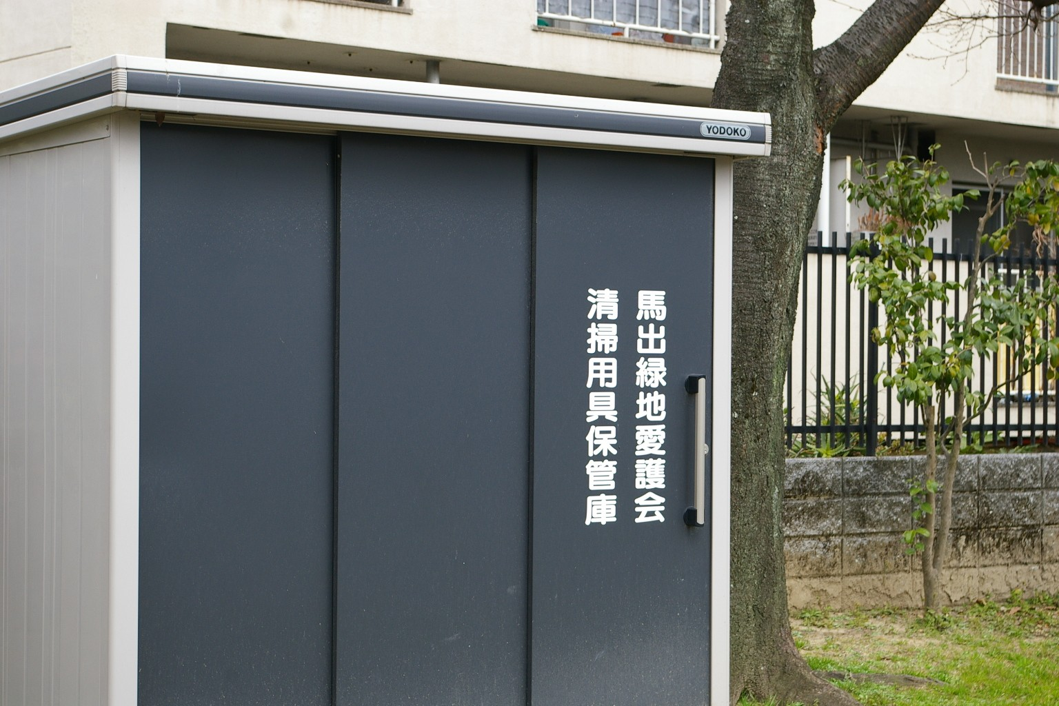 Maidashi Ryokuchi